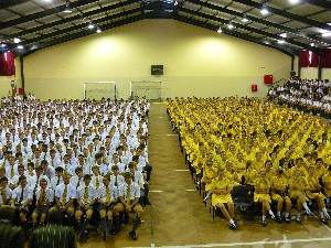 View of inside the School hall.